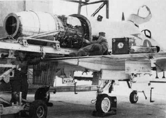 A Wright J65 engine is rolled into a Douglas A4D-2 Skyhawk by U.S. Marines of Marine Headquarters and Maintenance Squadron 12 (H&MS-12) at Marine Corps Air Station Iwakuni, Japan.